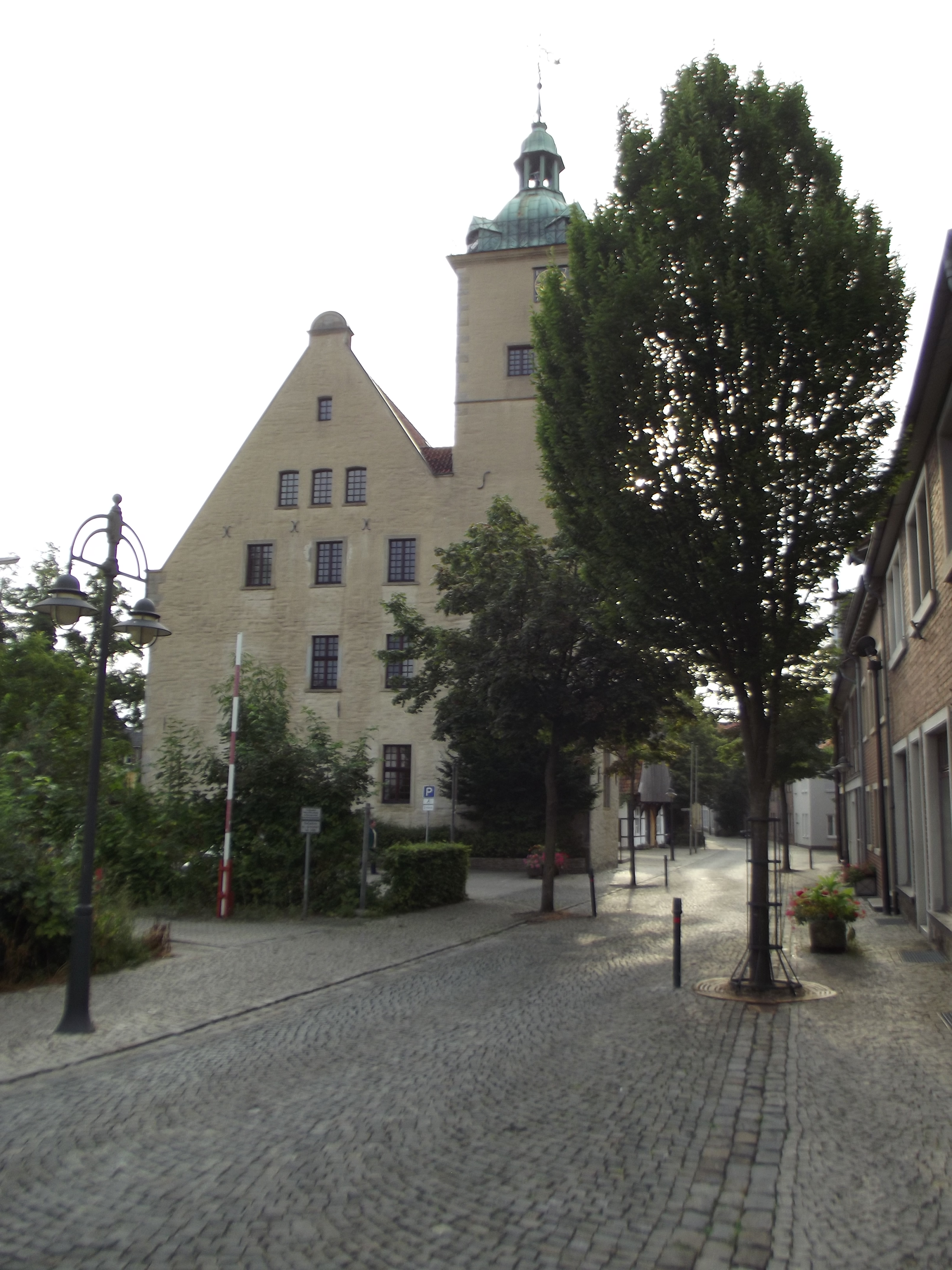 Picture of the "Hohe Schule", a university which was never condoned by the Pope because it was protestantic to the bone This image shows a heritage building in Germany, located in the North Rhine-Westphalian city Steinfurt (no. 5).